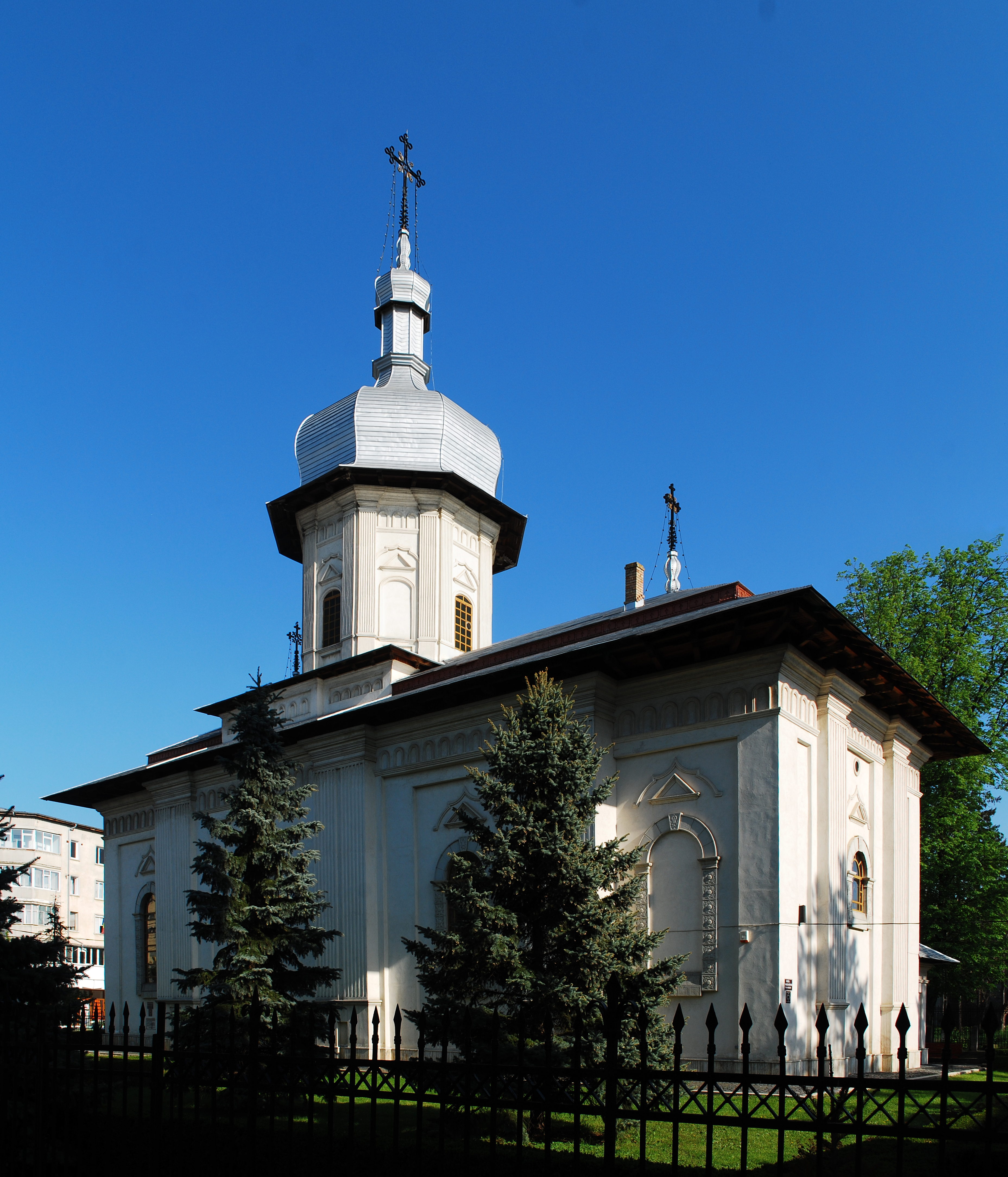 Church of the Dormition in Roman, Neamț County, RomaniaRomână: Biserica Adormirea Maicii Domnului (Precista Mare) din Roman, județul Neamț, România 01